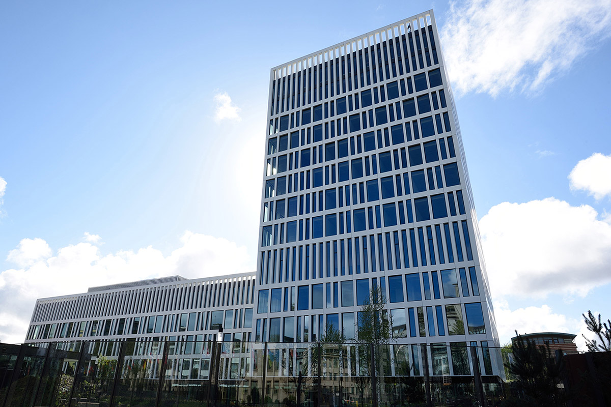 Eurojust-building-2017